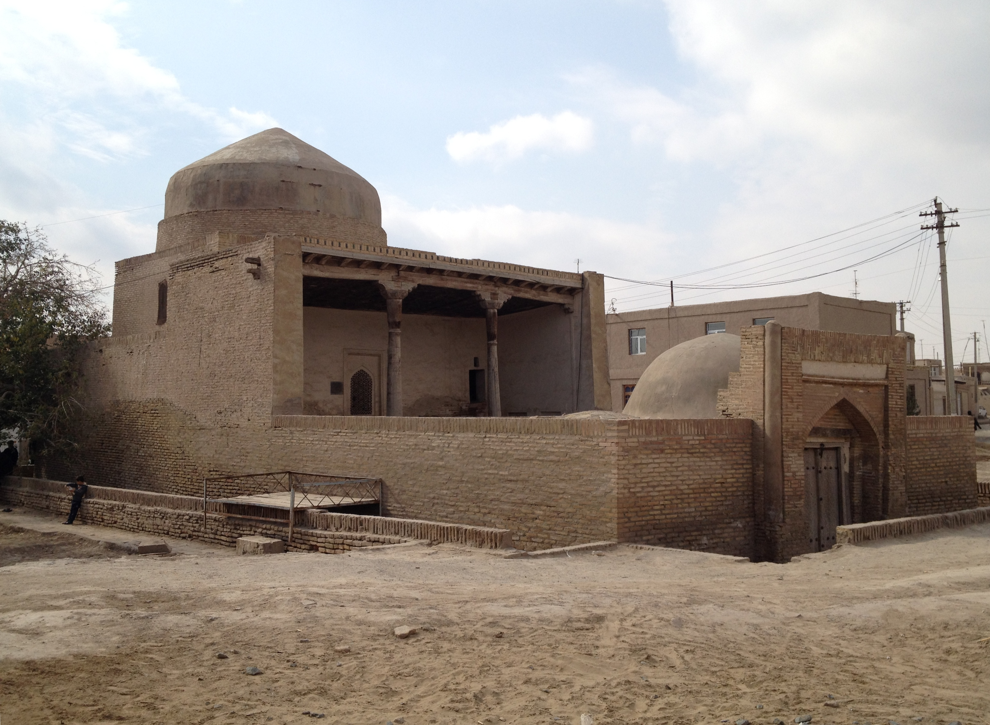 Bogbonli mosque, Khiva